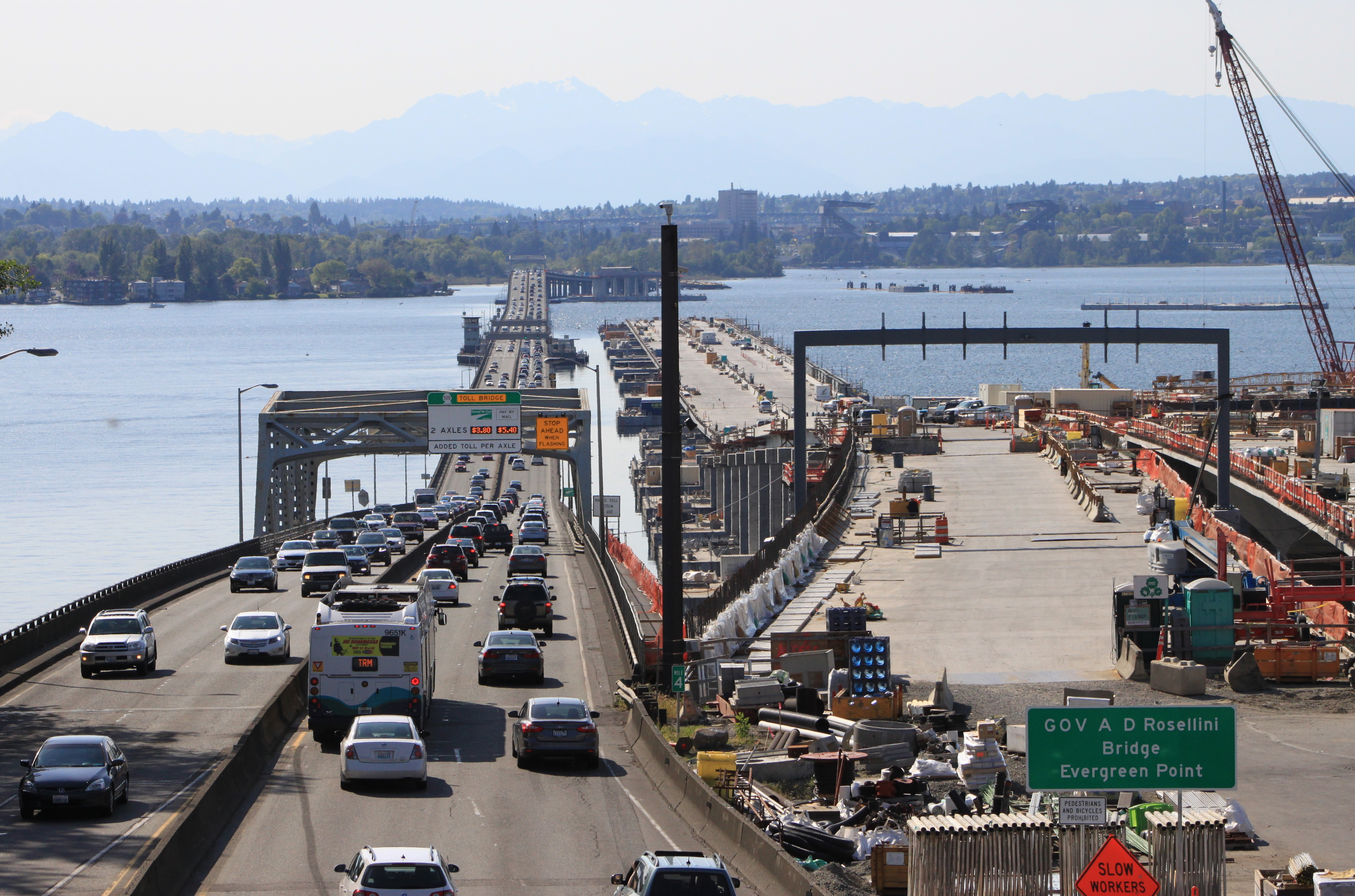 The Evergreen Point Floating Bridge (left) on Lake Washington near Seattle, Washington and its future replacement (right, under construction), taken from the Evergreen Point Freeway Station lid over State Route 520.